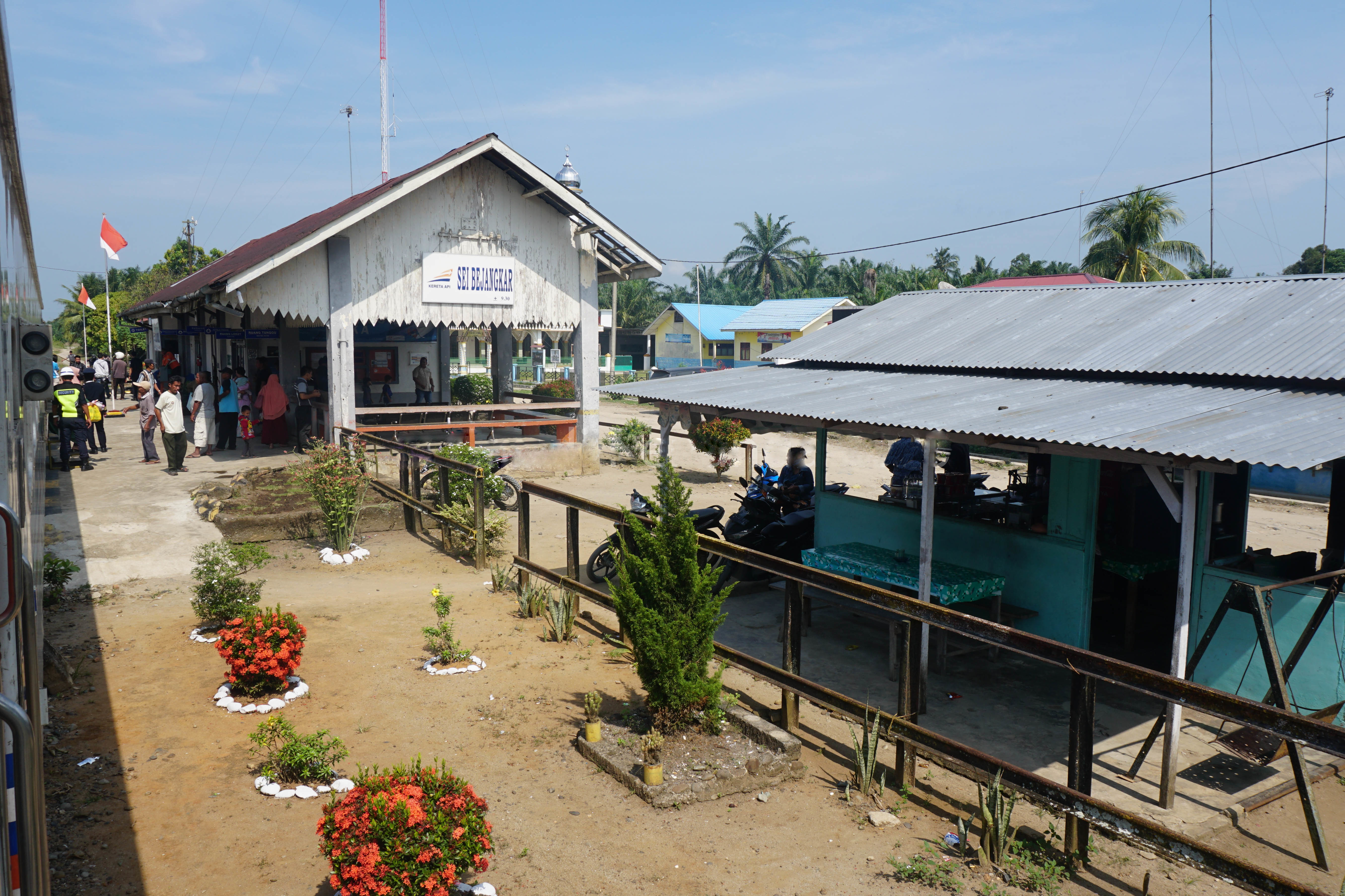 Sei Bejangkar Station view from Putri Deli